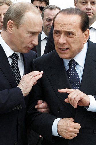 SARDINIA. With Silvio Berlusconi.